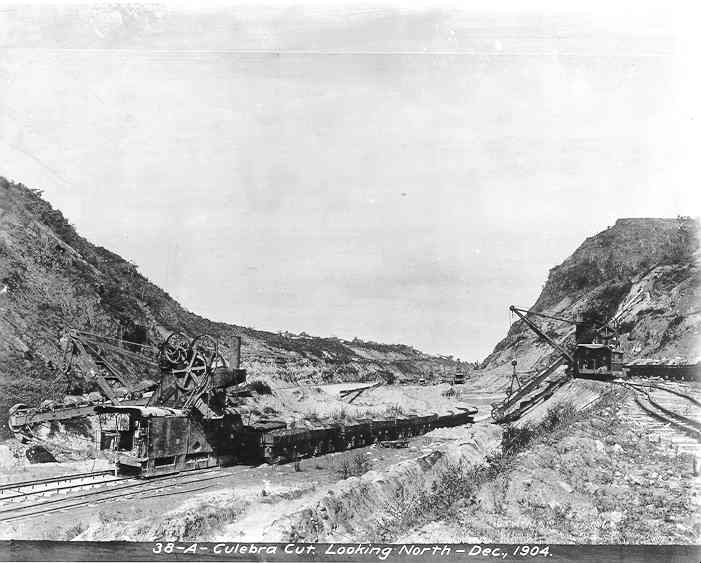 The Culebra (later Gaillard) Cut, as it was in December, 1904.